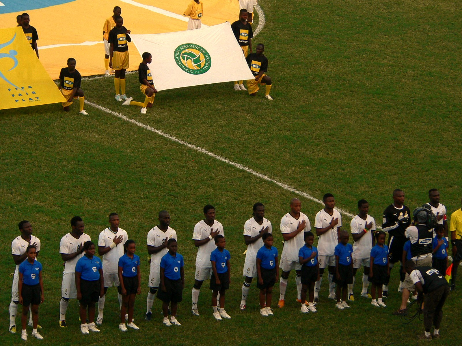 Ghana nation football team members line-up before a 2008 Africa Cup of Nations match versus Nigeria national football team.